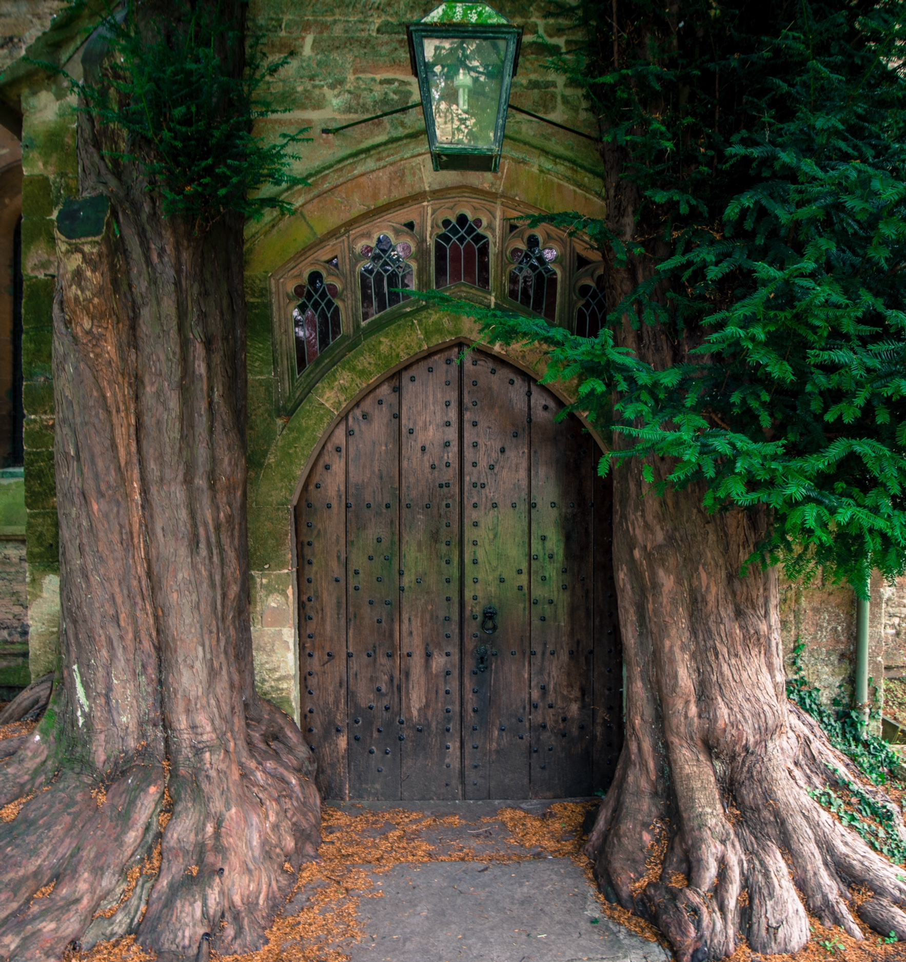 Entrance at St Edward's Church, Stow-on-the-Wold, Cotswolds, UK